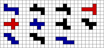 The 11 hexominos that are a template to a cube